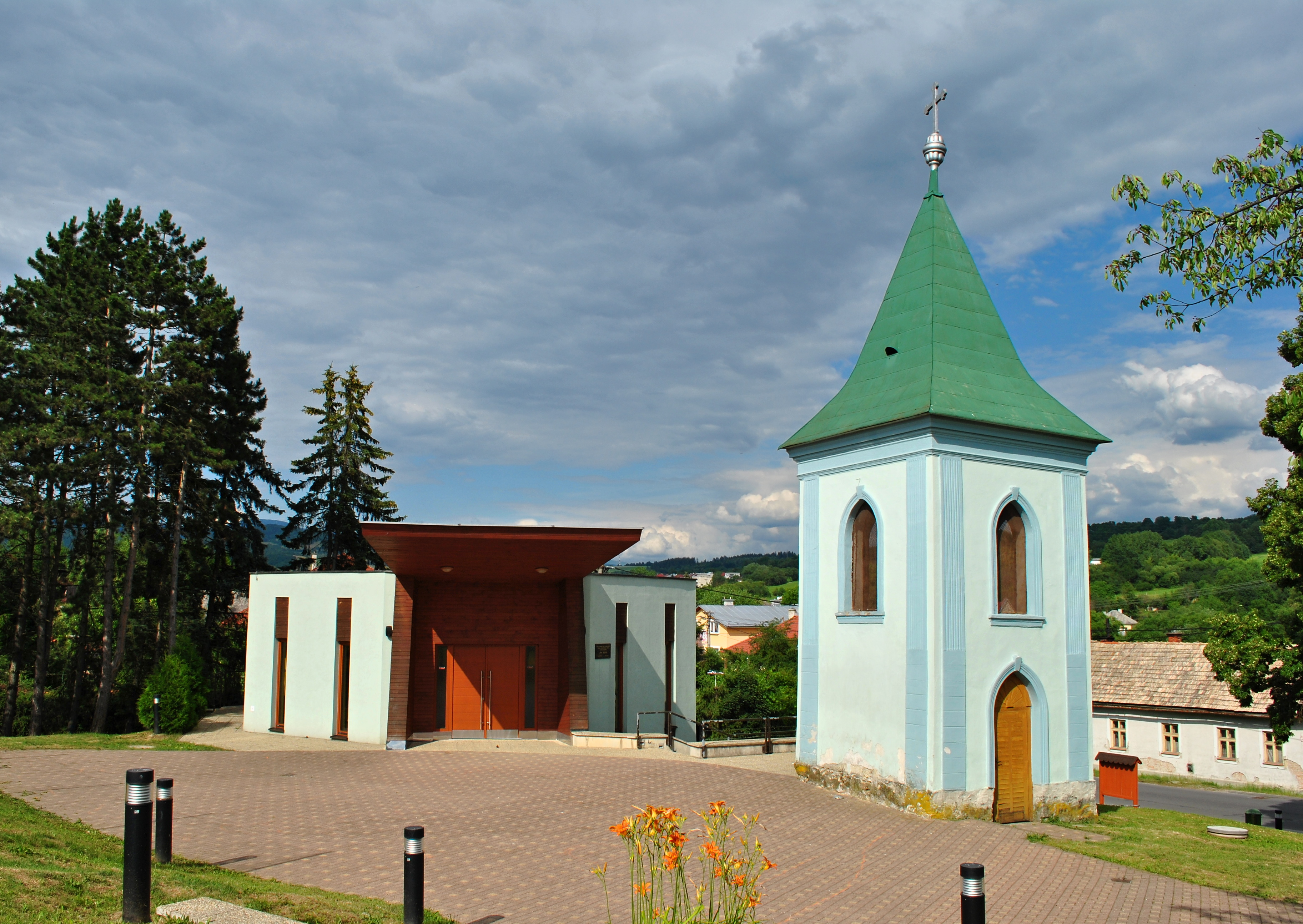 Kynceľová, district of Banská Bystrica - church with bell-tower